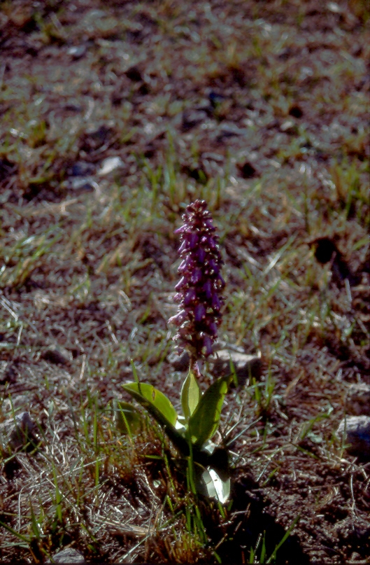 Barlia robertiana on the Cap Leucate (Leucate France); Barlia robertiana au Cap Leucate (Leucate France)